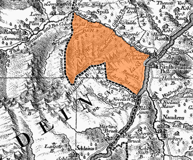 Detail from Wikipedia:Atlas_Tyrolensis-small.jpg, colored: Area of Novellaberg in: Atlas Tyrolensis (about 1760 - 1770)